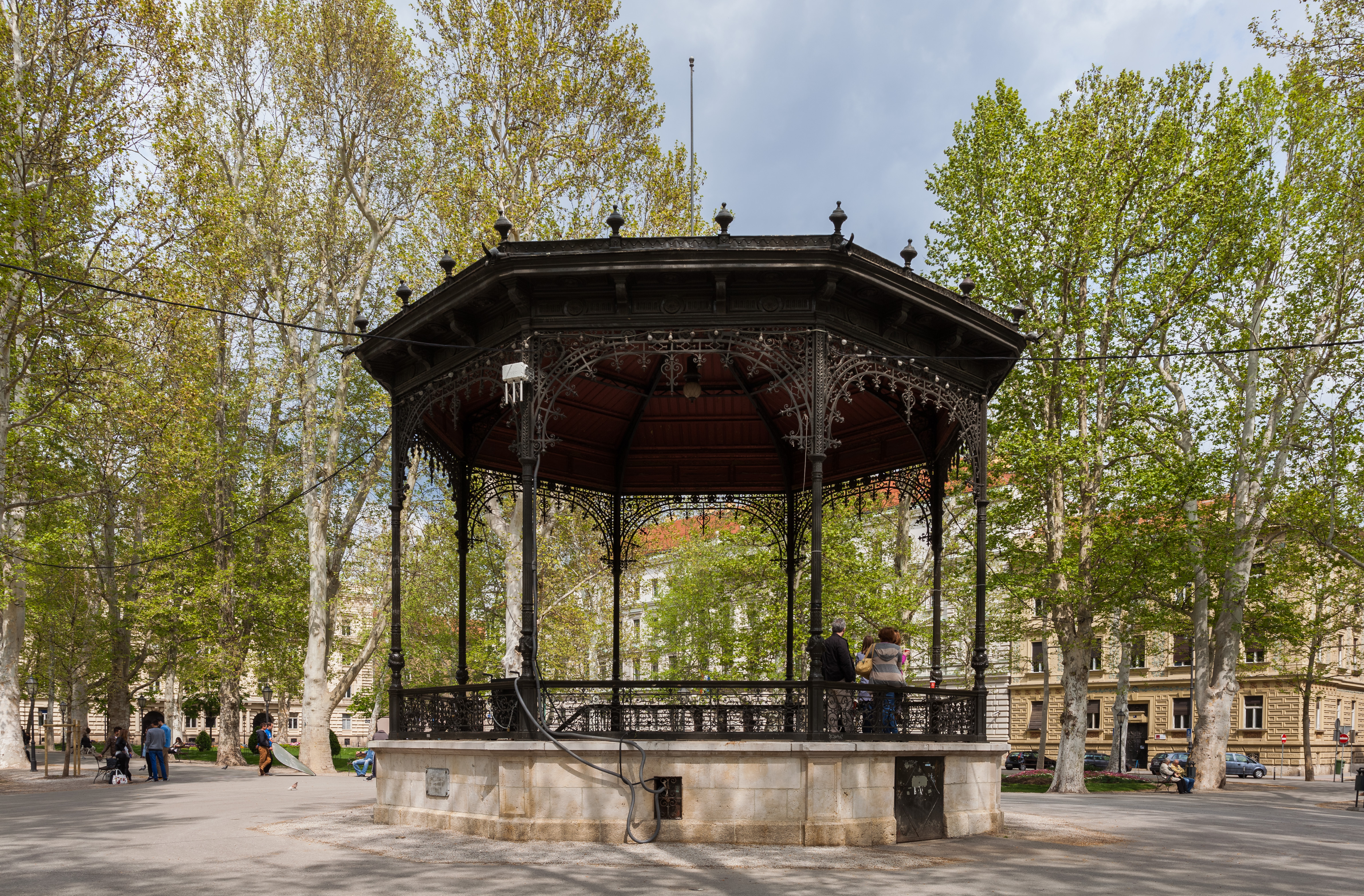 Kiosk in the Nikola Šubić Zrinski park, Zagreb, Croatia